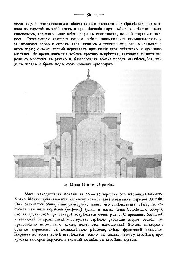 Mokvi Monastery